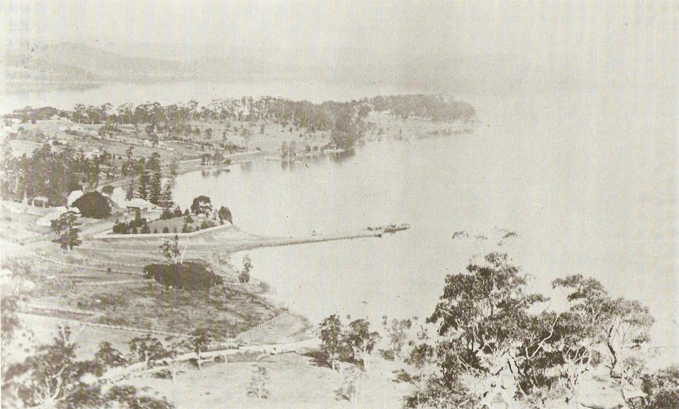 View from President's Hill shows Point Frederick